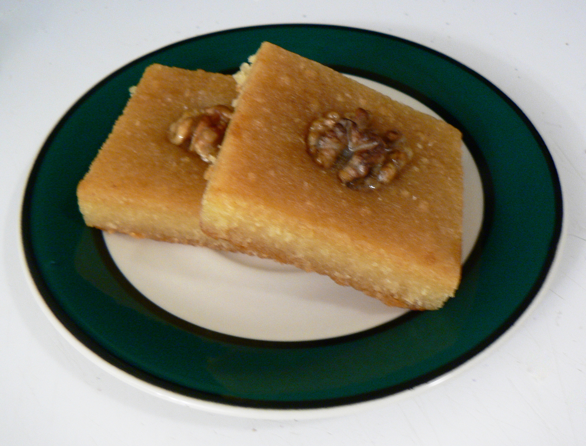 Unknown Very tasty. Fresh and made at the restaurant.